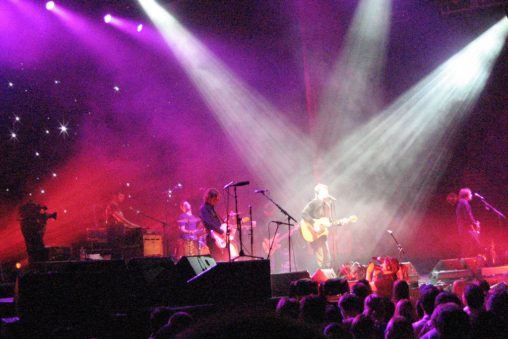 Photograph of Australian rock band Powderfinger performing live at a concert in September 2007.